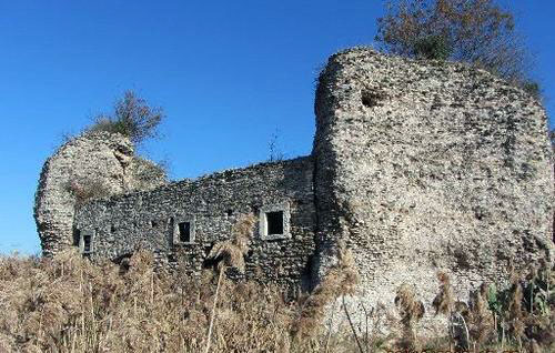 Ruins of Roman baths at Aquae Albulae, Tivoli, Italy